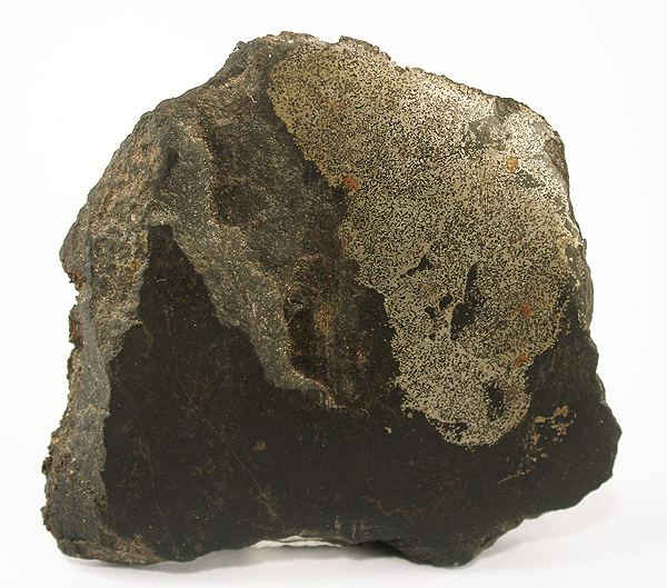 Iron Locality: Bühl, Weimar, Kassel, North Hesse, Hesse, Germany (Locality at ) Size: 6.6 x 5.9 x 1.8 cm. An uncommon slabbed and polished specimen of lustrous, metallic, elemental native iron in basalt from Germany. According to Mindat the locality is an "Abandoned basalt quarry on a contact to tertiary lignites….and iron is rare in igneous rocks." In fact, native iron is more commonly and easily found in meteorites than on the earth’s surface. The consignor passes on the following concerning the native iron from Buhl: I found something unusual concerning the native iron from Buhl reported in A Method for Isolating Native Iron from Basalt without Destroying its Form. Max Seebach (Centv. Min., 1 910,641-643) which says native iron occurs in the basalt of Buhl, near Weimar, in the form of a fine network. The basalt may be removed without destroying the form of the iron by heating with Plattner¹s flux in a graphite crucible. A piece of basalt 1 C.C. in size is destroyed in one and a-half hours. The last traces of rock enclosed in the meshes of the iron are removed by fusion with boron trioxide. This is very rich iron and very rare, important scientific material for the collector.